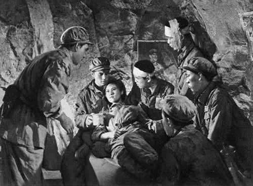 The photo comes from the film "Battle on Shangganling Mountain" 1956 China